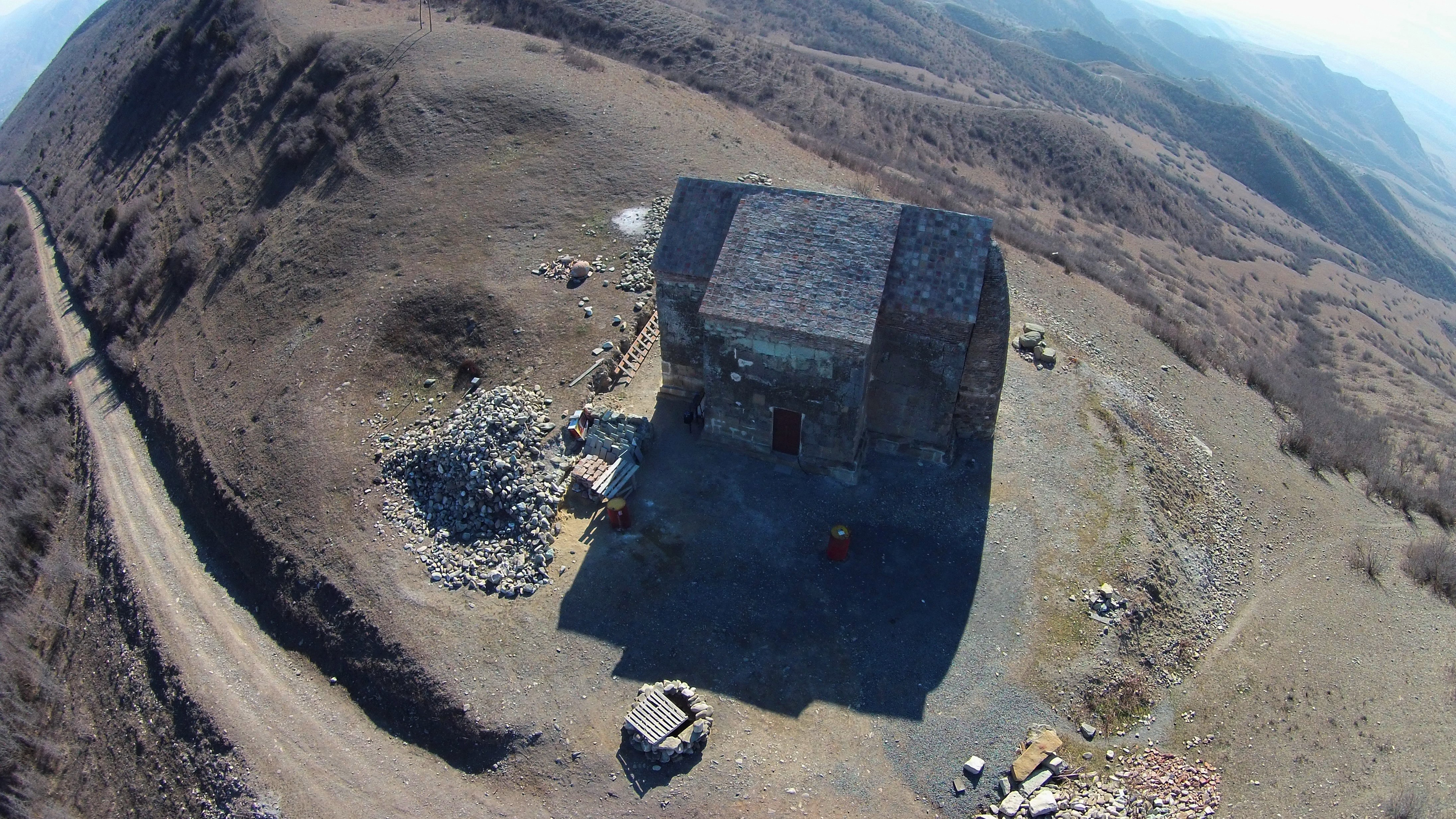 DCIM\100MEDIA